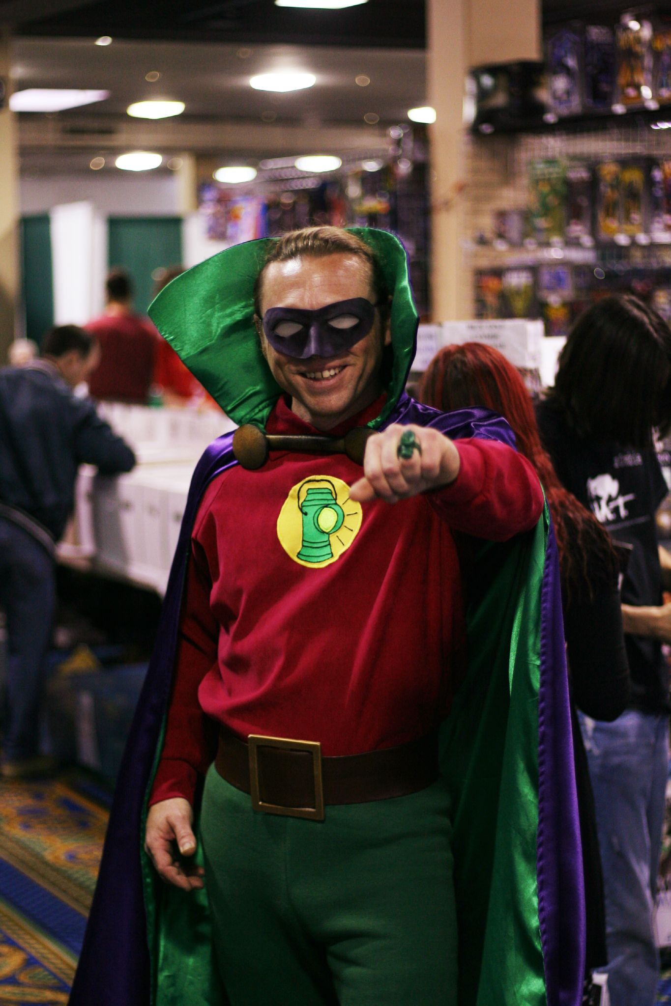 Green Lantern at the 2007 Pittsburgh Comicon.